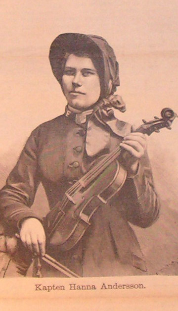 Hanna Andersson, the first Salvationist in Sweden who got a Officers certificate of The Salvation Army, Songwriter.